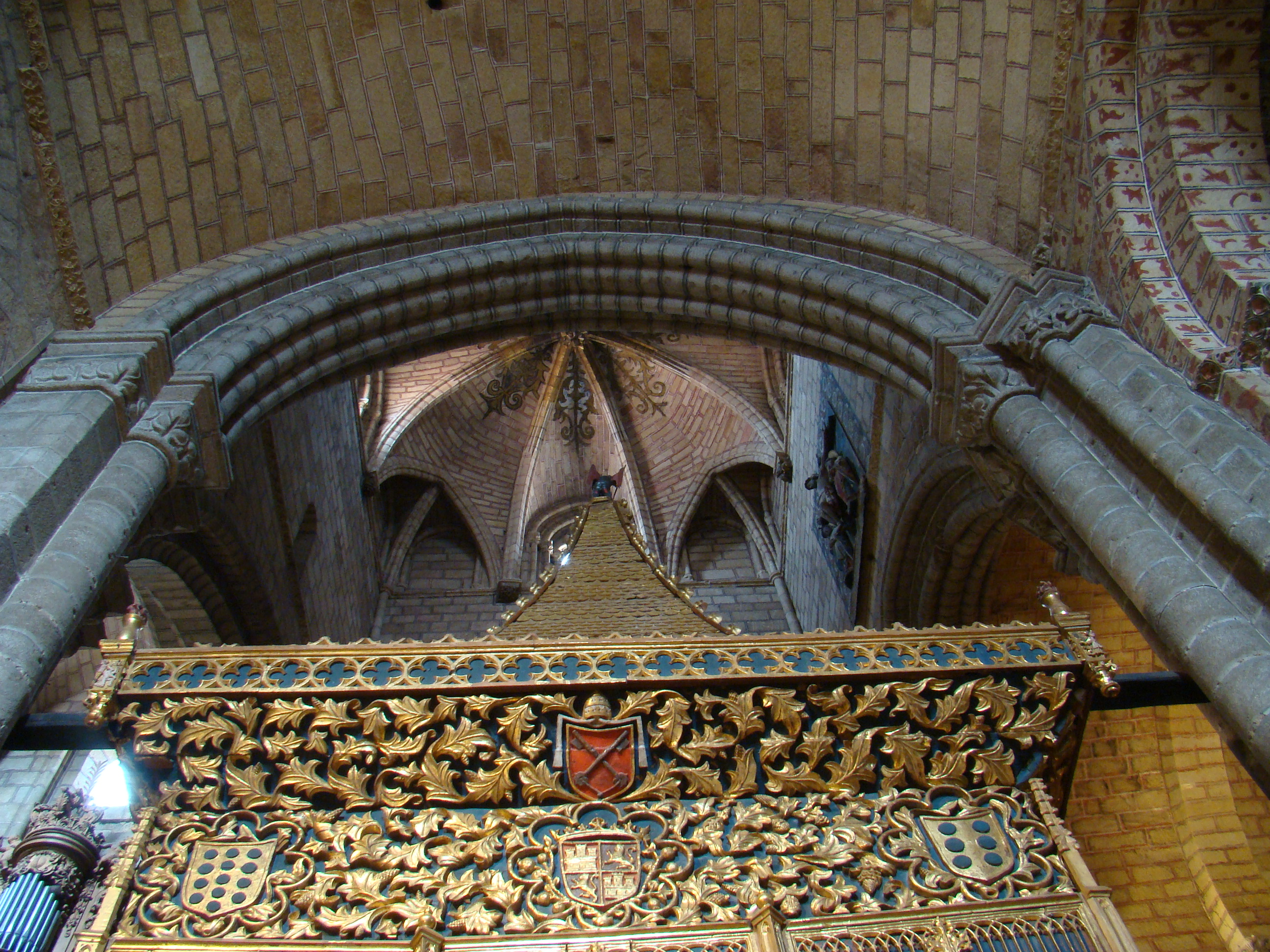 Vault of the crossing and baldachin of the romanic cenotaph of the martyrs saints Vicente, Sabina and Cristeta in the basilica of San Vicente, Ávila (Spain). It is located under the transversal arch of the epistle. It was built by the master Fruchel (or Eruchel).